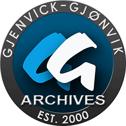 Gjenvick-Gjønvik Archives Logo